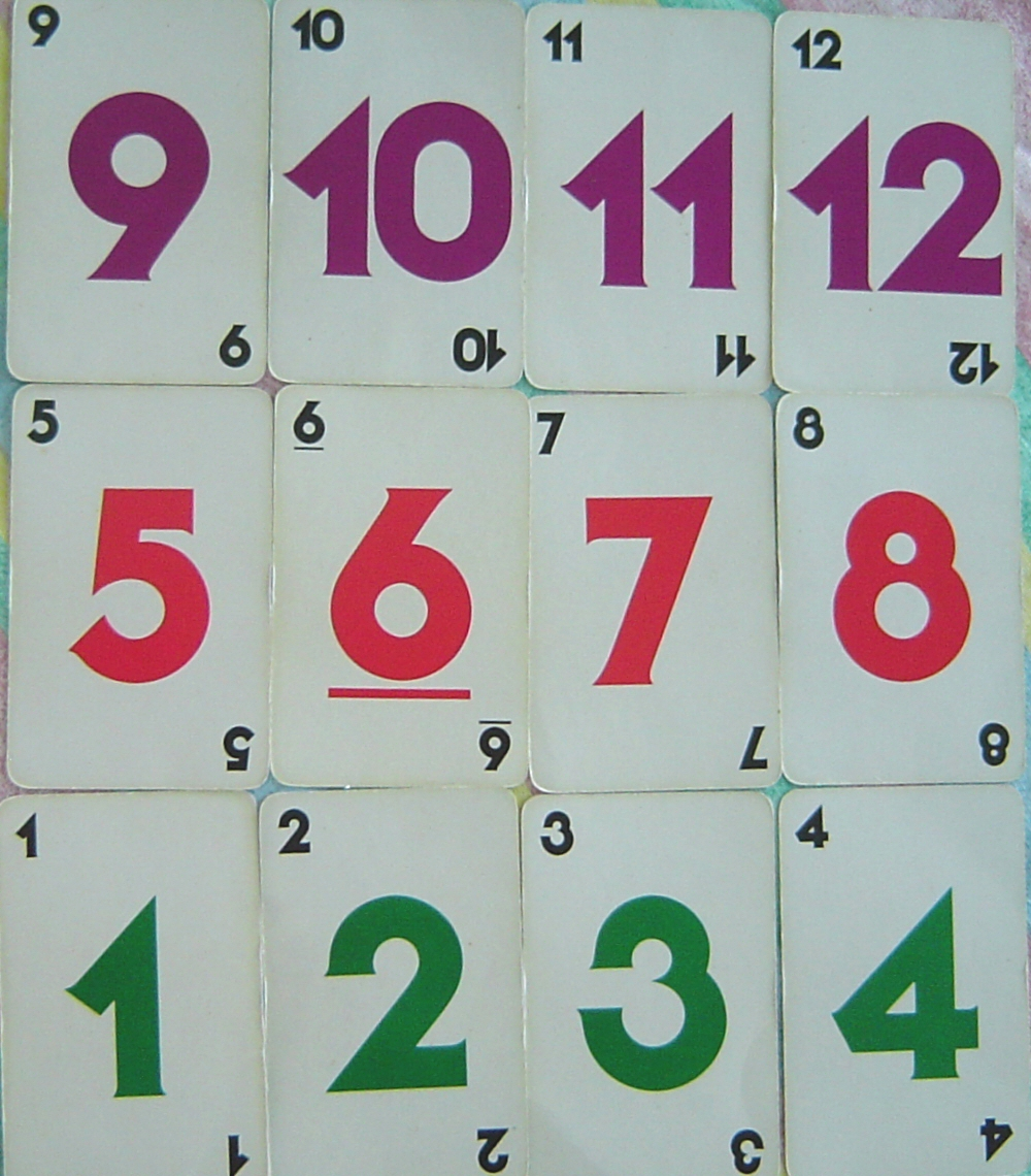 A Skip-bo card deck.